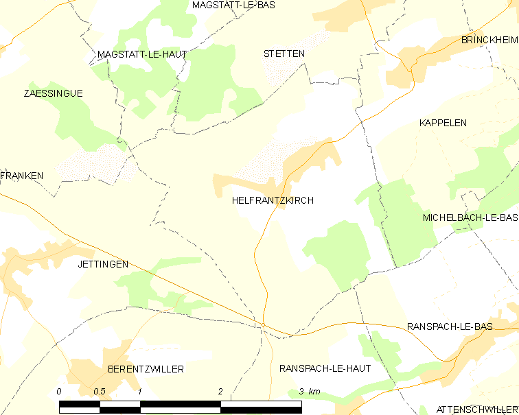 Map of French municipality